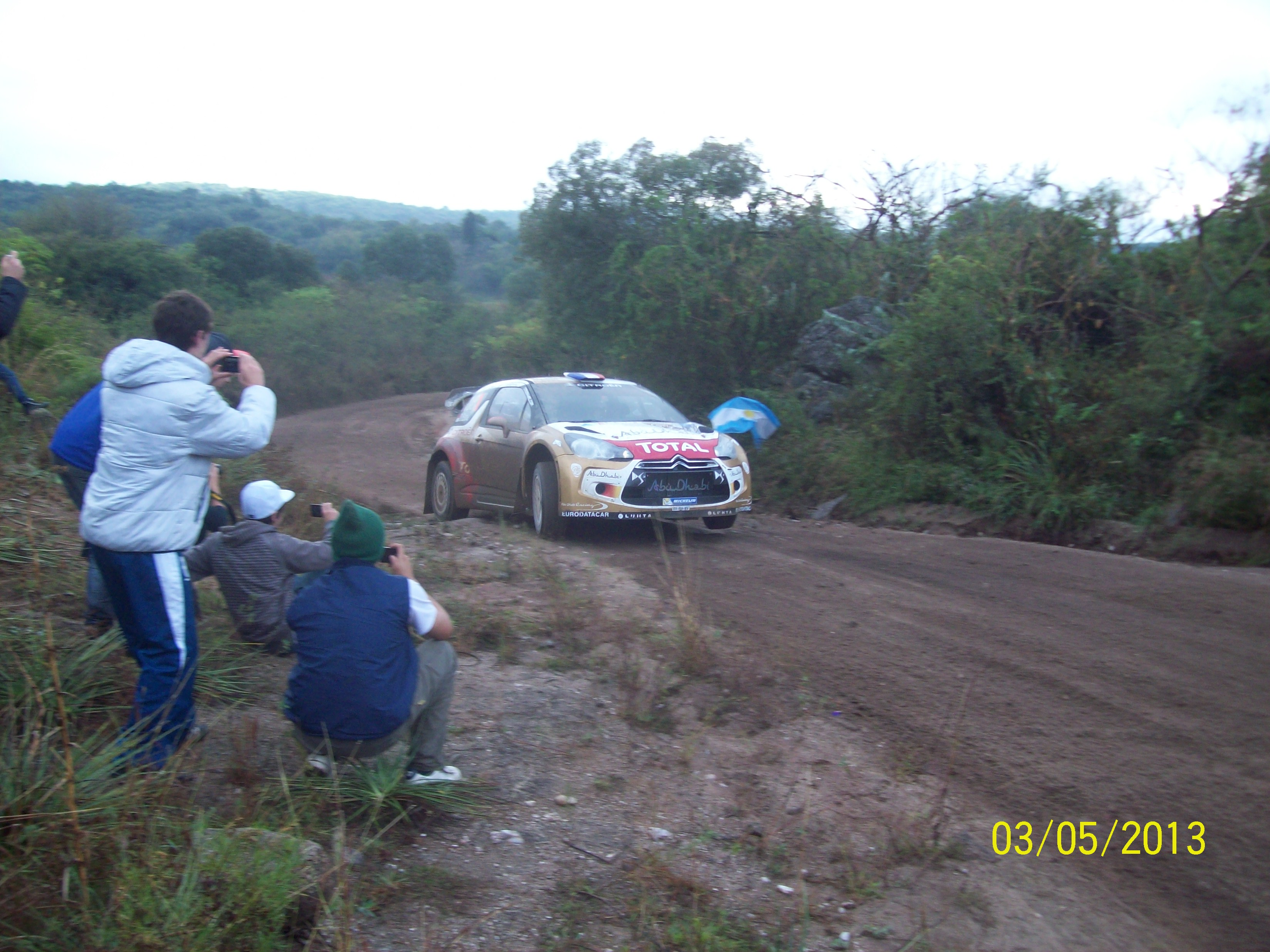 Loeb in his last victory on WRC